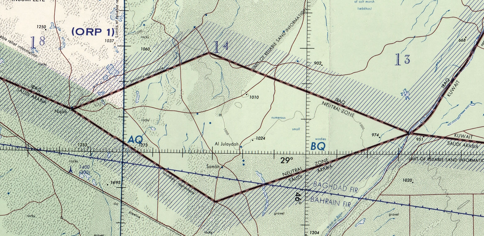 ONC Chart sheet of Middle East, showing former Iraq-Saudi Neutral Zone